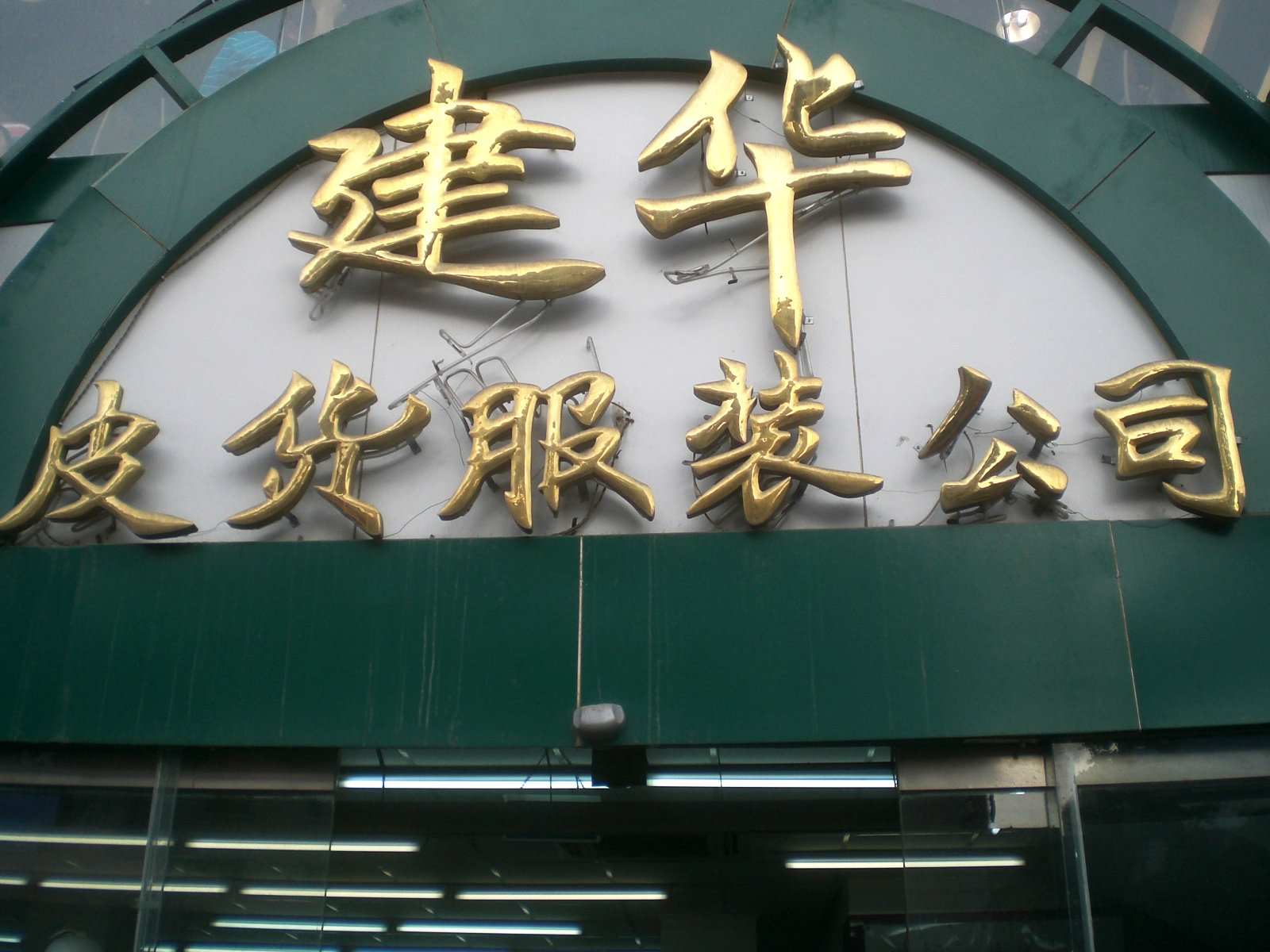 北京市東城區王府井王府井大街